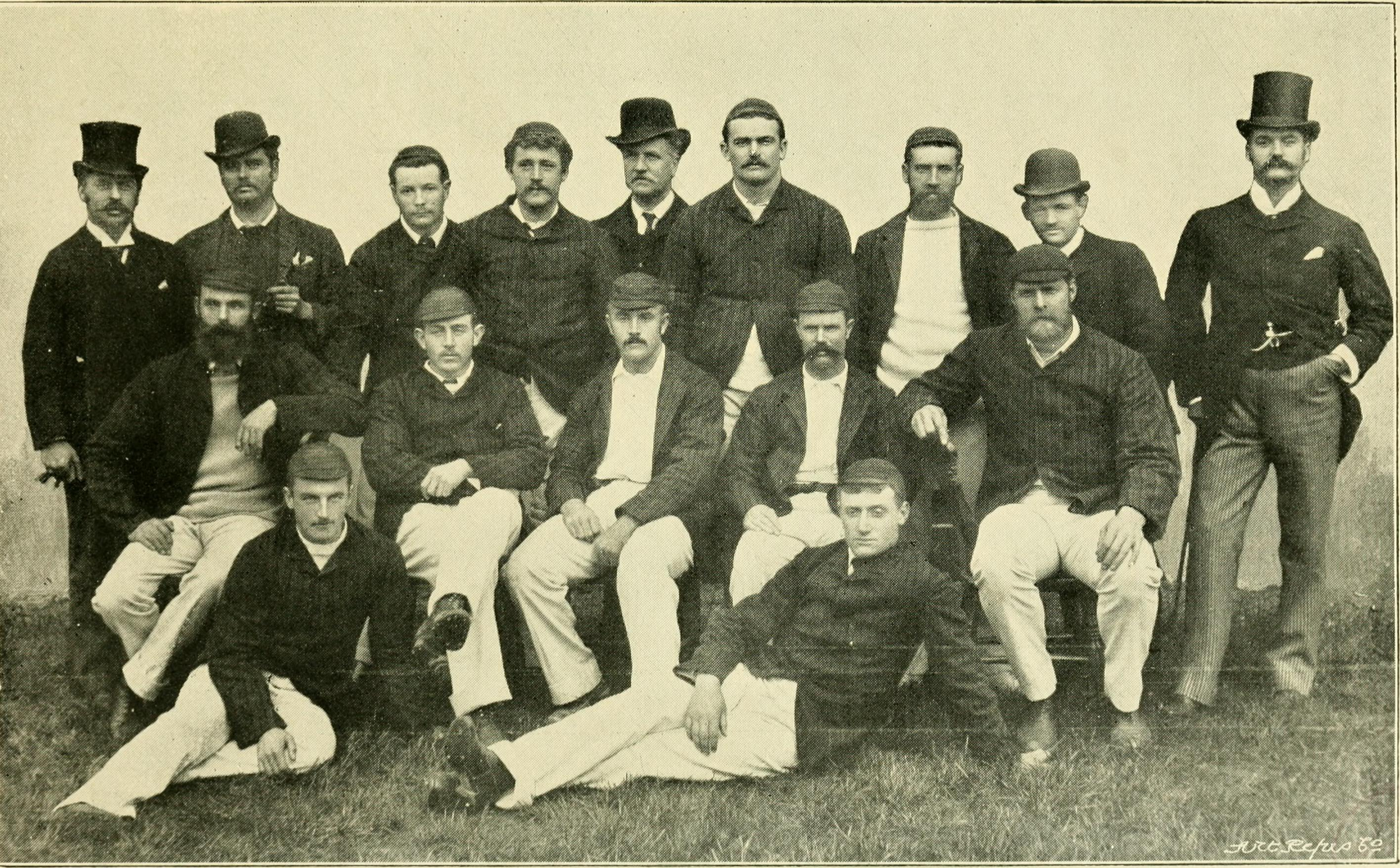 Title: "W.G.", cricketing reminiscences and personal recollections Year: 1899 (1890s) Authors: Grace, W. G. (William Gilbert), 1848-1915 Subjects: Cricket Publisher: London, J. Bowden Text Appearing Before Image: ficulty in getting a good teamto represent Gloucestershire in the early part ofthe season, and, though Woof bowled admirably,our bowling was the source of our weakness. I remember the match against Kent, notonly because I made 100 in each innings, butbecause my brother E. M. and I scored 127,before we were parted. E. M. had a very narrowescape early in his innings. He gave a very easychance—in fact, it was two chances in one, as,after skying the ball to short slip, he ran downthe wickets. The catch was missed, but by thistime E. M. was down at my end, I, thinking hewas sure to be caught, having kept in my ground.The captain and the other fieldsmen shouted toshort-slip to throw the ball in and run E. M. out,but the fieldsman was flustered at missing thecatch, and threw the ball to the wrong end, withthe result that E. M., who was very nimble ingetting across the wicket, got back to his ground,and showed his appreciation of the blunder byknocking the bowling about for some time. It is Text Appearing After Image: '